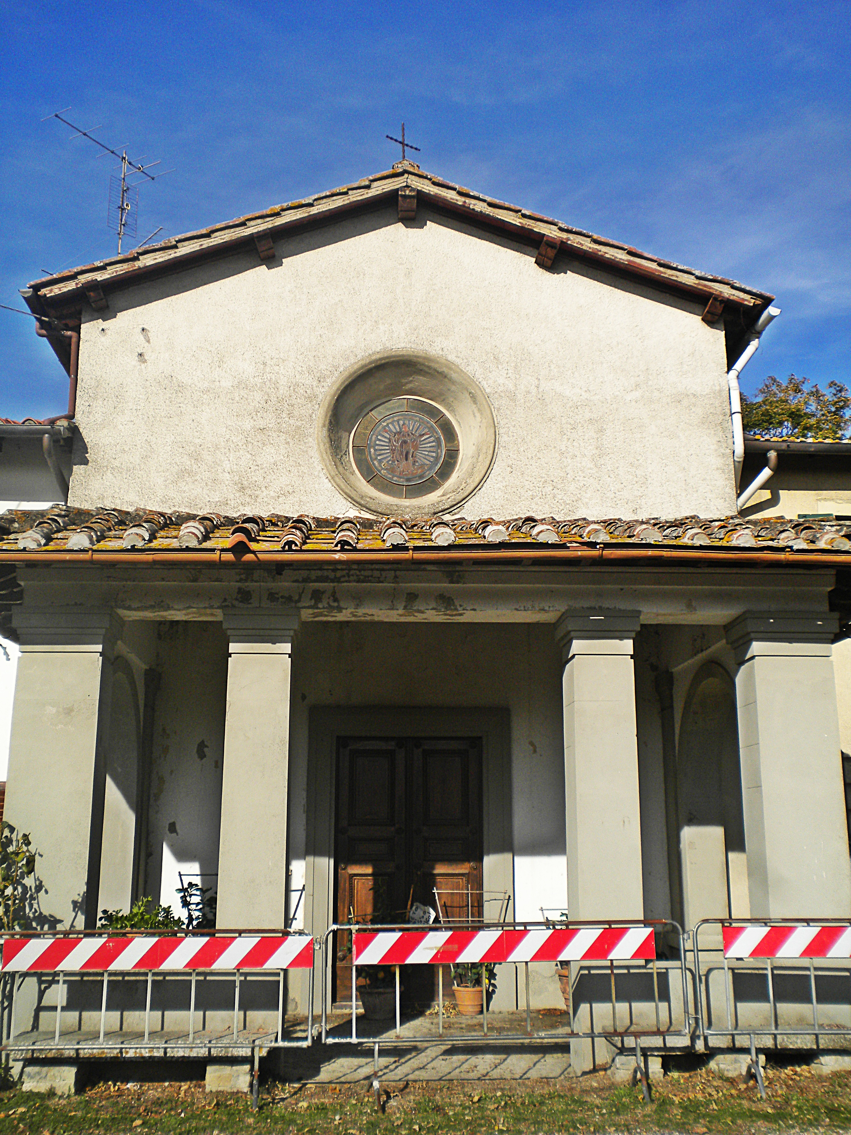 Santa Lucia church-facade